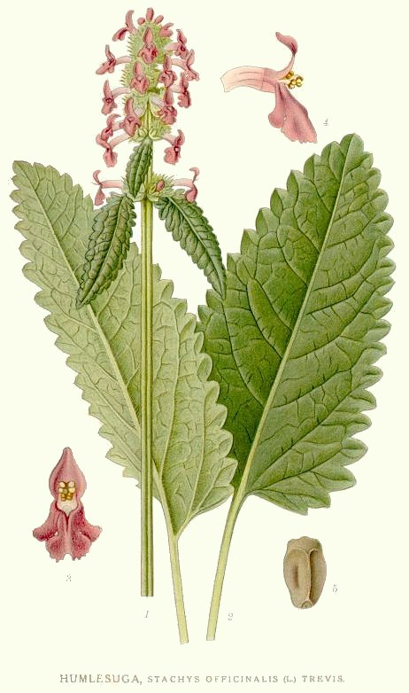 Original Description Humlesuga, Stachys officinalis (L.) Trevis